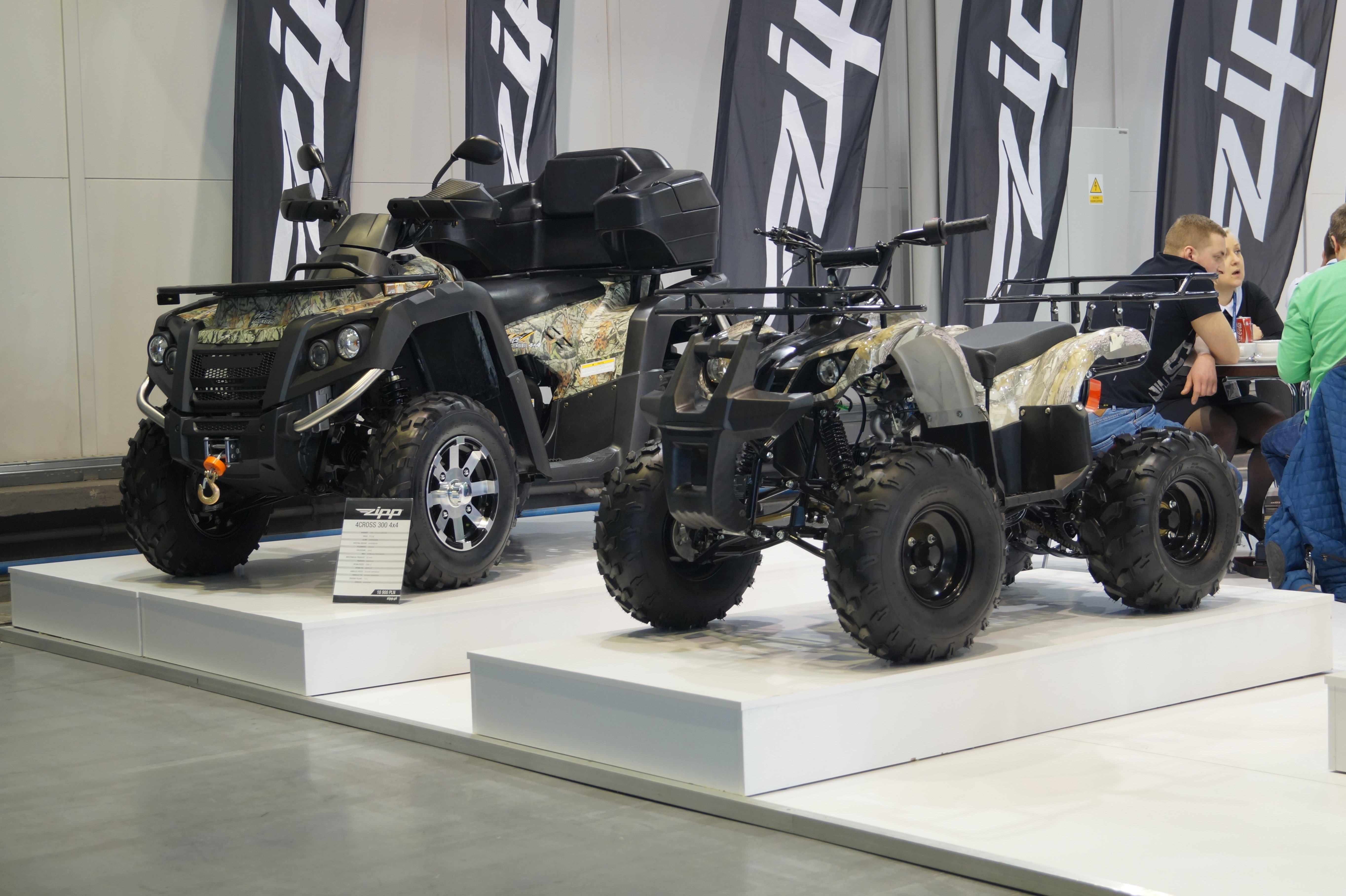 The making of this document was supported by Wikimedia Polska Association, within Wikigrant no. WG 2016-10. English | polski | +/− Quady Zipp na Motor Show Poznań 2016